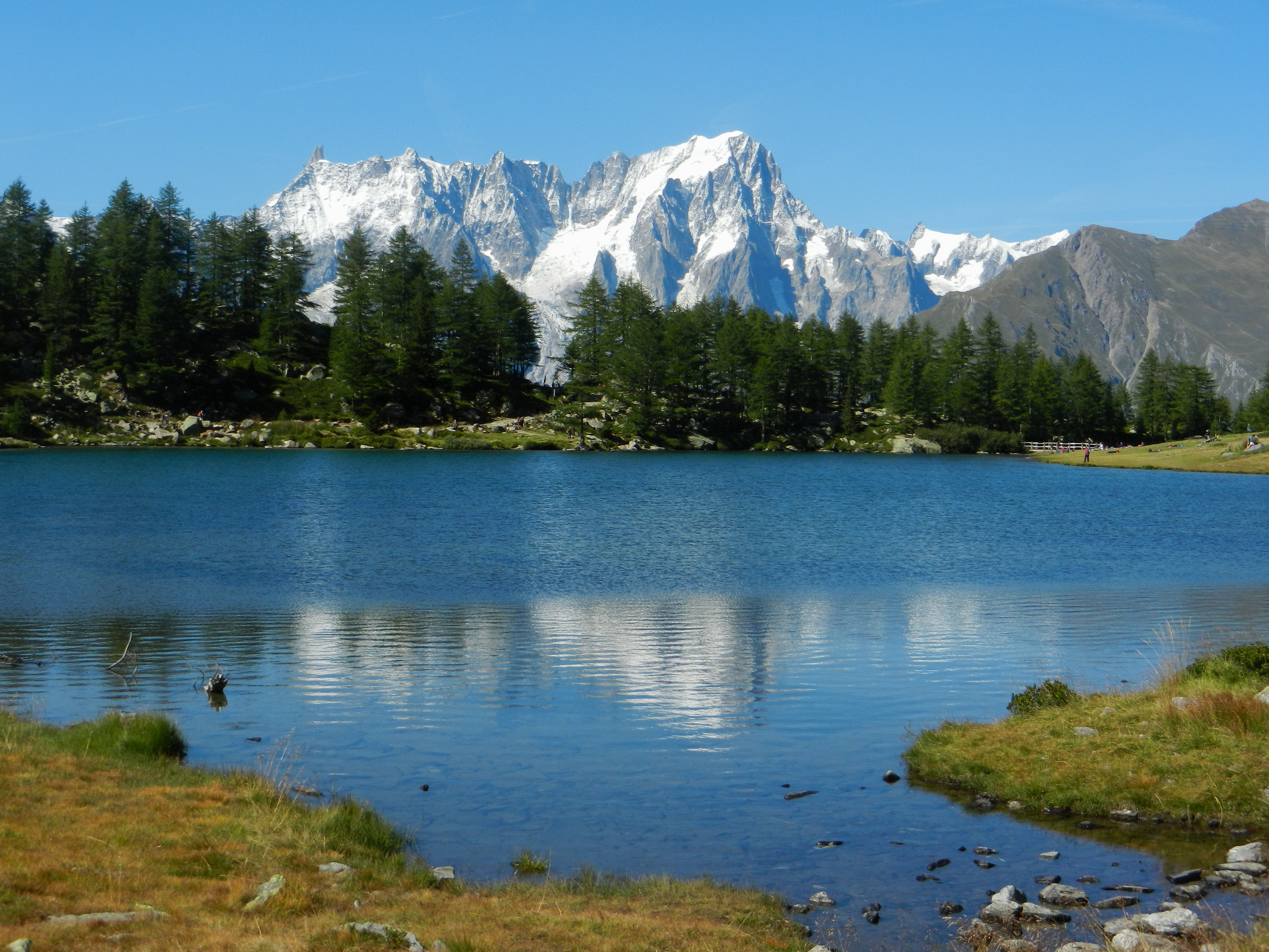 Morgex (Aosta Valley, Italy), Arpy Lake